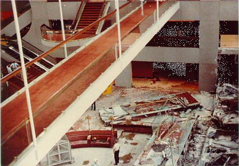 Third floor walkway of the Kansas City Hyatt Regency, and remaining poles of second and fourth